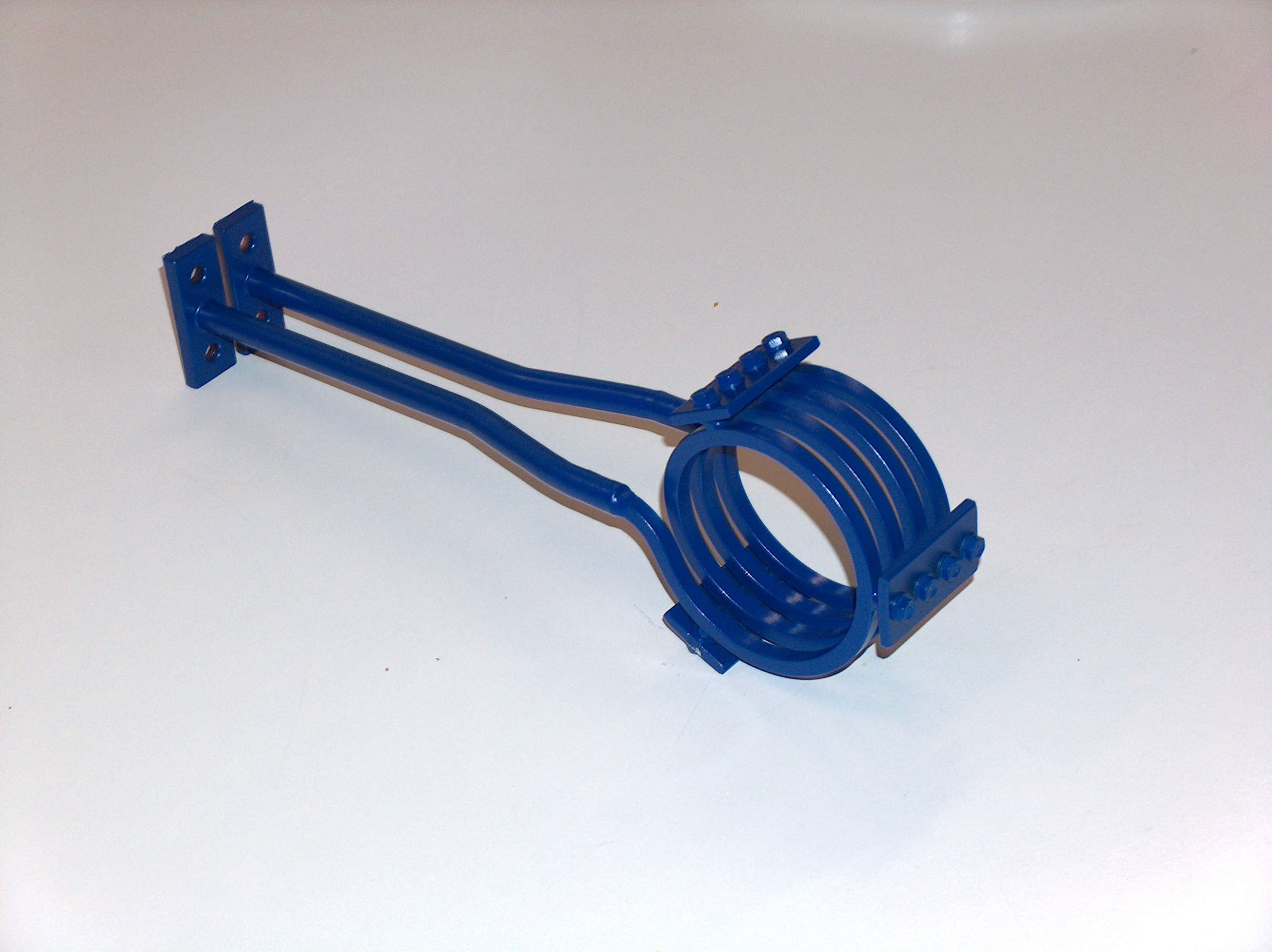 Plustherm Inductor